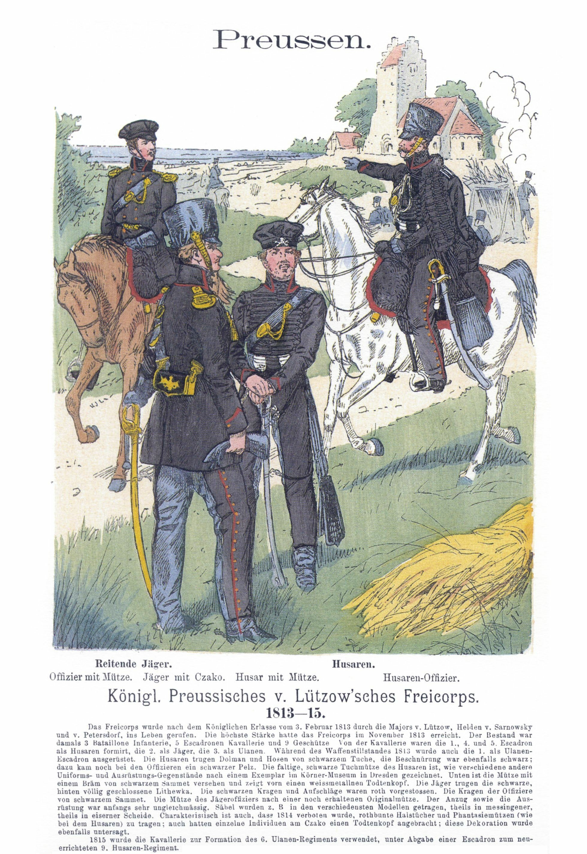 Preußen. Königlich Preußisches von Lützow'sches Freicorps. 1813-15